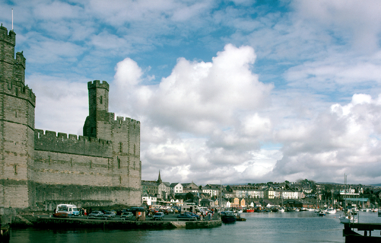 Caernarfon, Castle and town; North Wales, GB